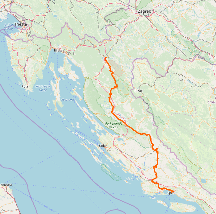 Map of M604 railway from Oštarije via Knin to Split in Croatia. This map may be incomplete, and may contain errors. Don't rely solely on it for navigation.